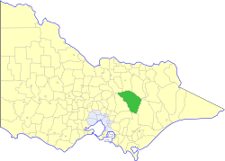 Location of the Shire of Mansfield within Victoria.